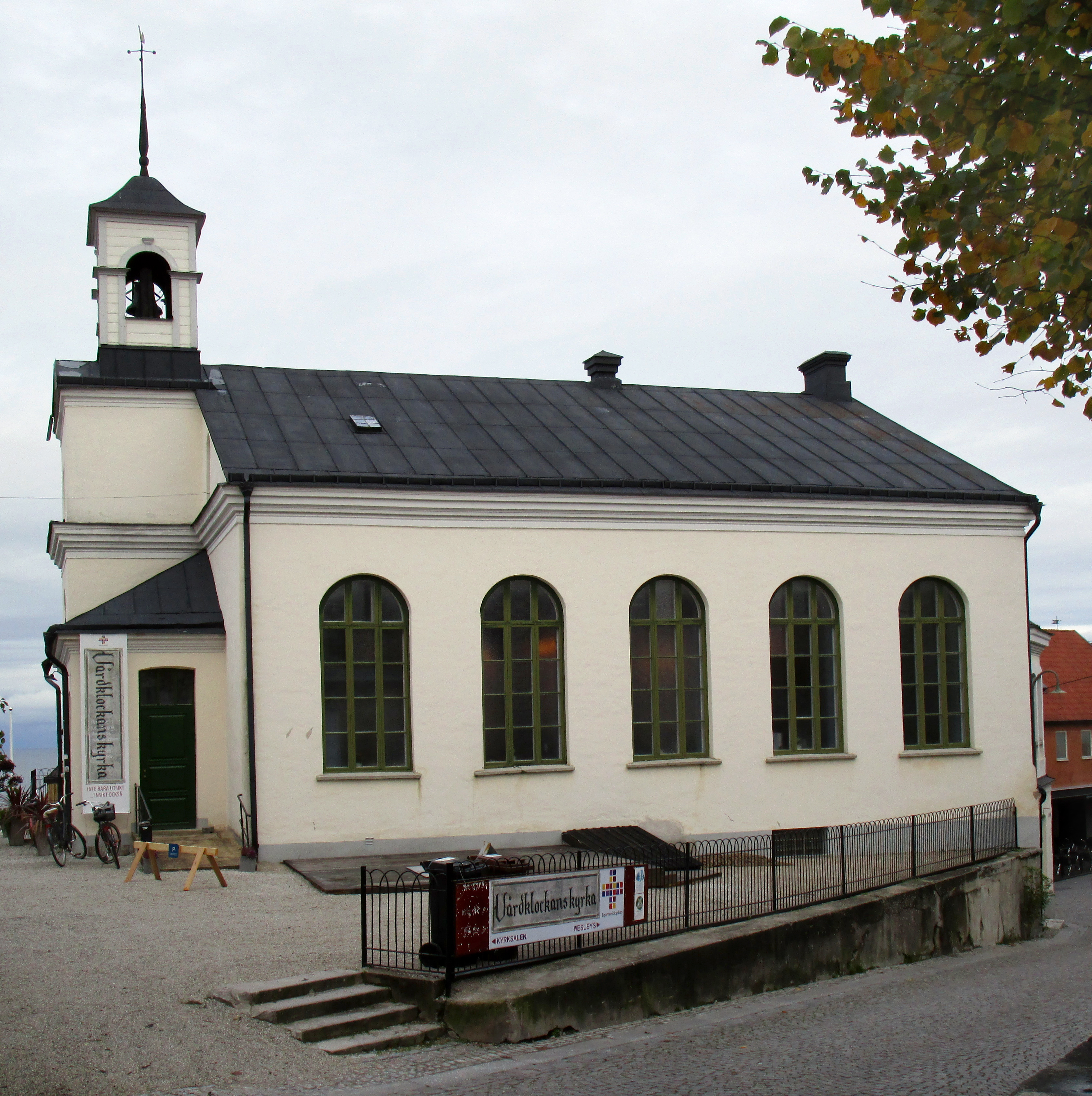 Vårdklockan Church, prev. known as Missionskyrkan in Visby, Gotland.